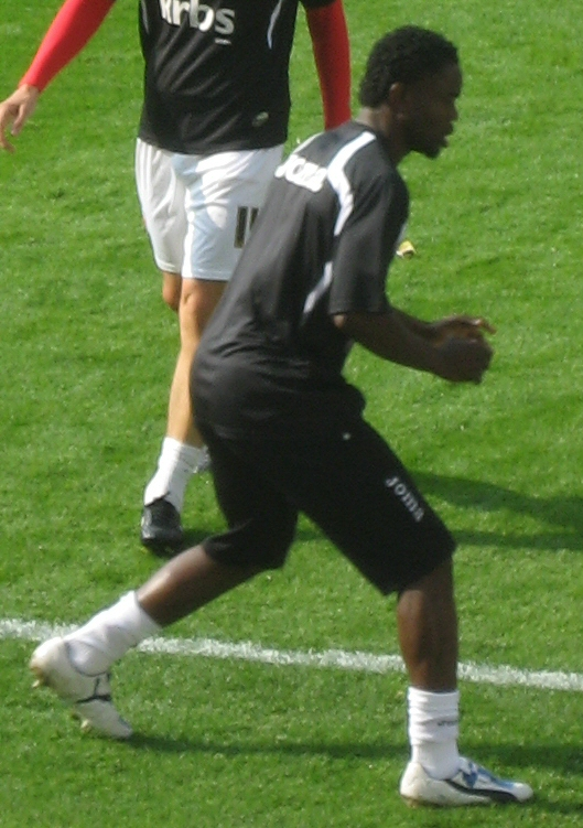 Sam Sodje warming up for the 2009 Norwich v Charlton game.